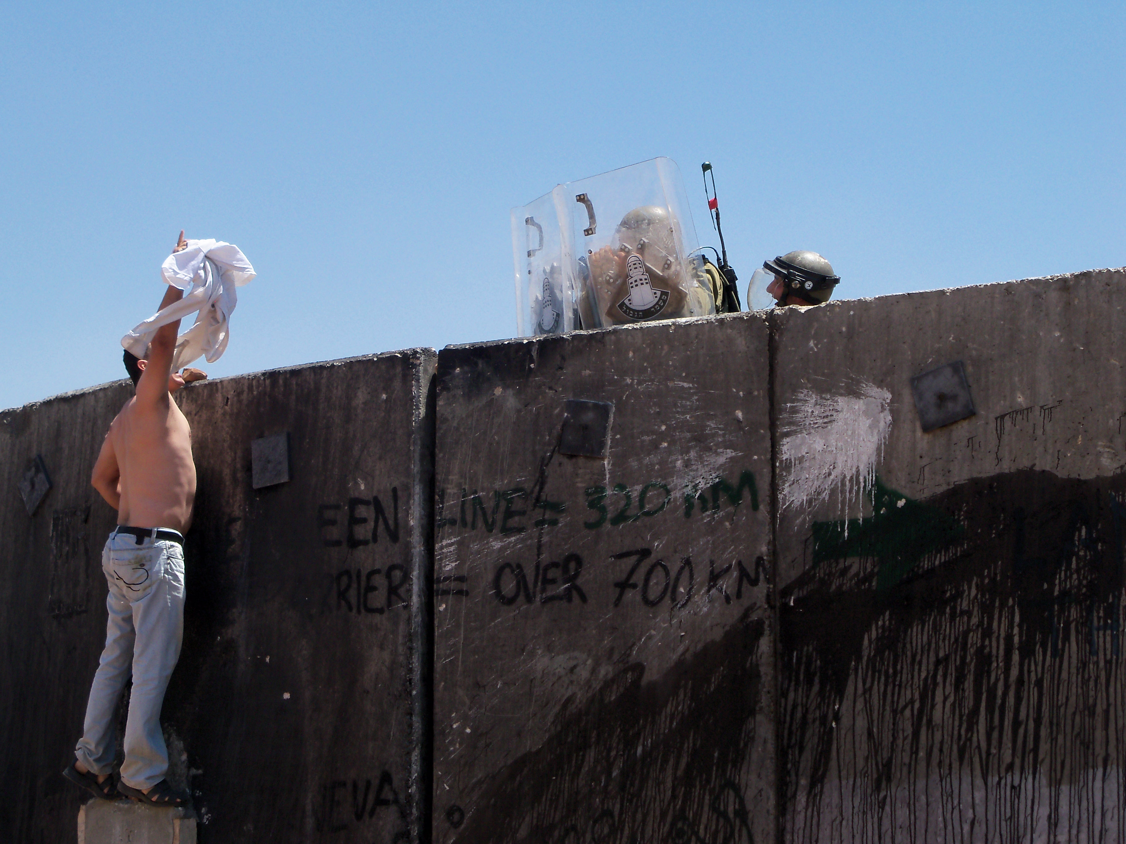 Villager from Ni'lin confronts Israel Border Police on the separation wall in Ni'lin. Friday demonstartion.